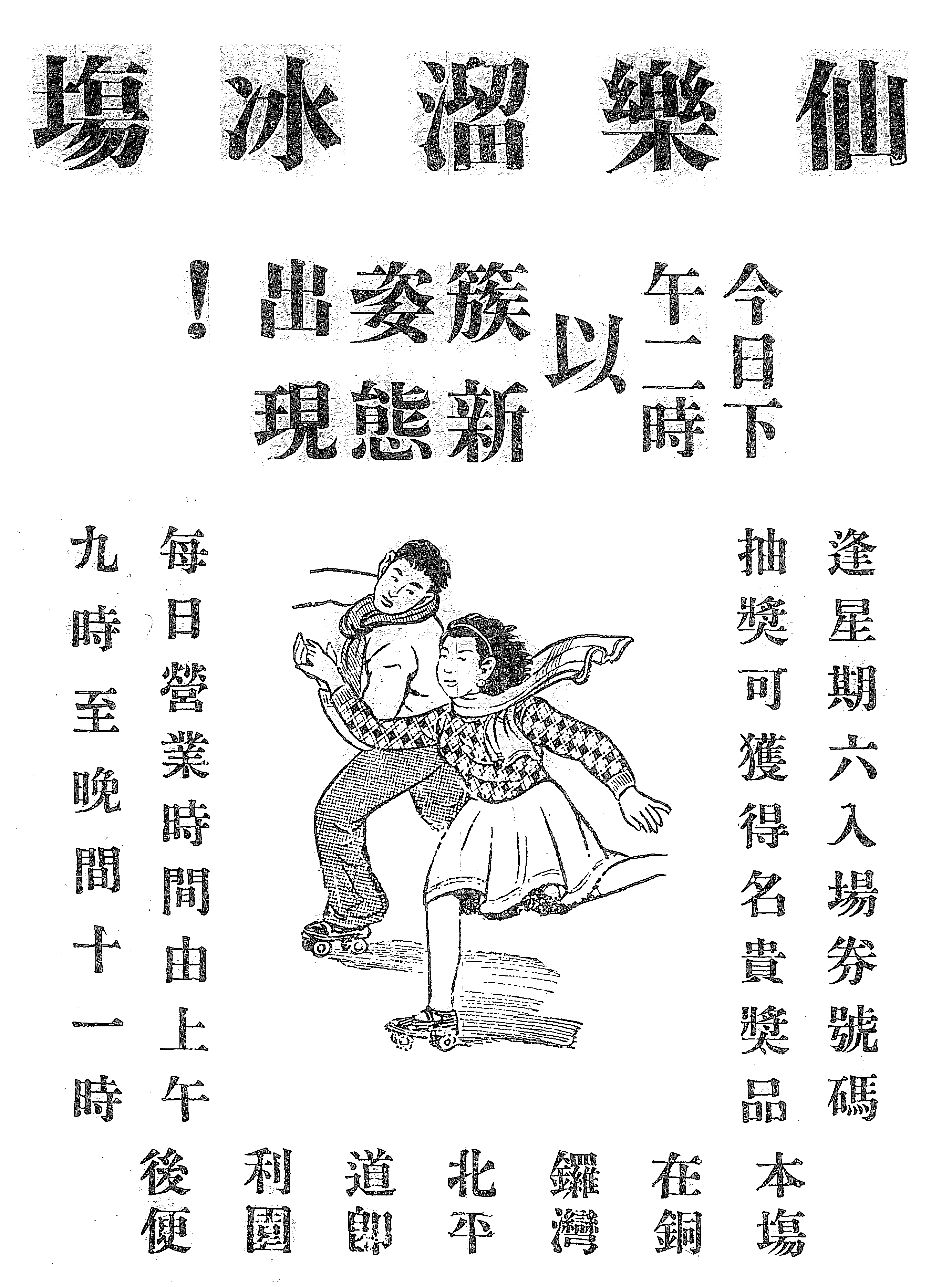 Sin Lok Roller Skating Rink, Hong Kong, reopen advertisement on 1941 Nov 15